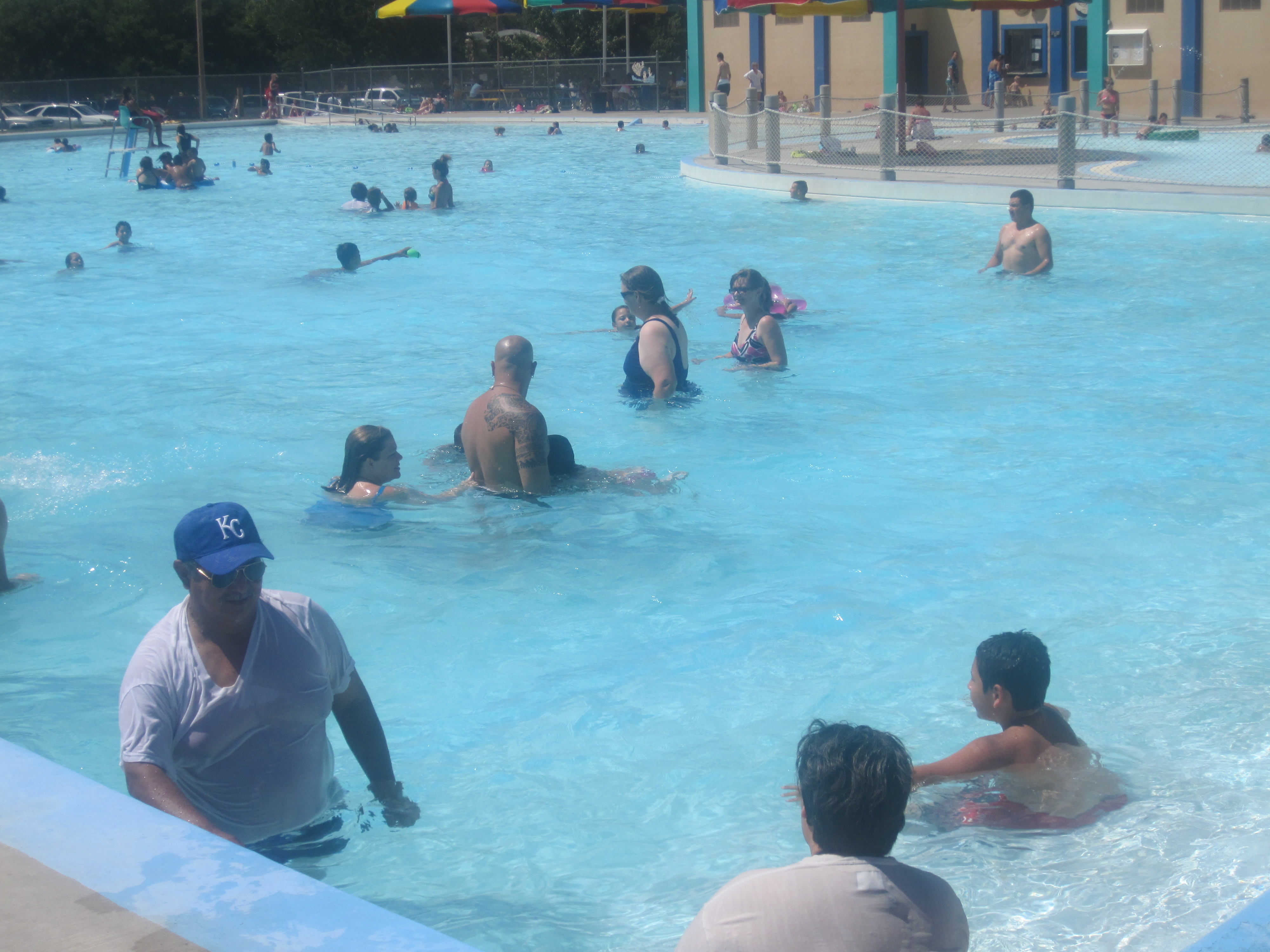 Swimmers in Garden City, KS . I took photo with Canon camera in Garden City, KS.